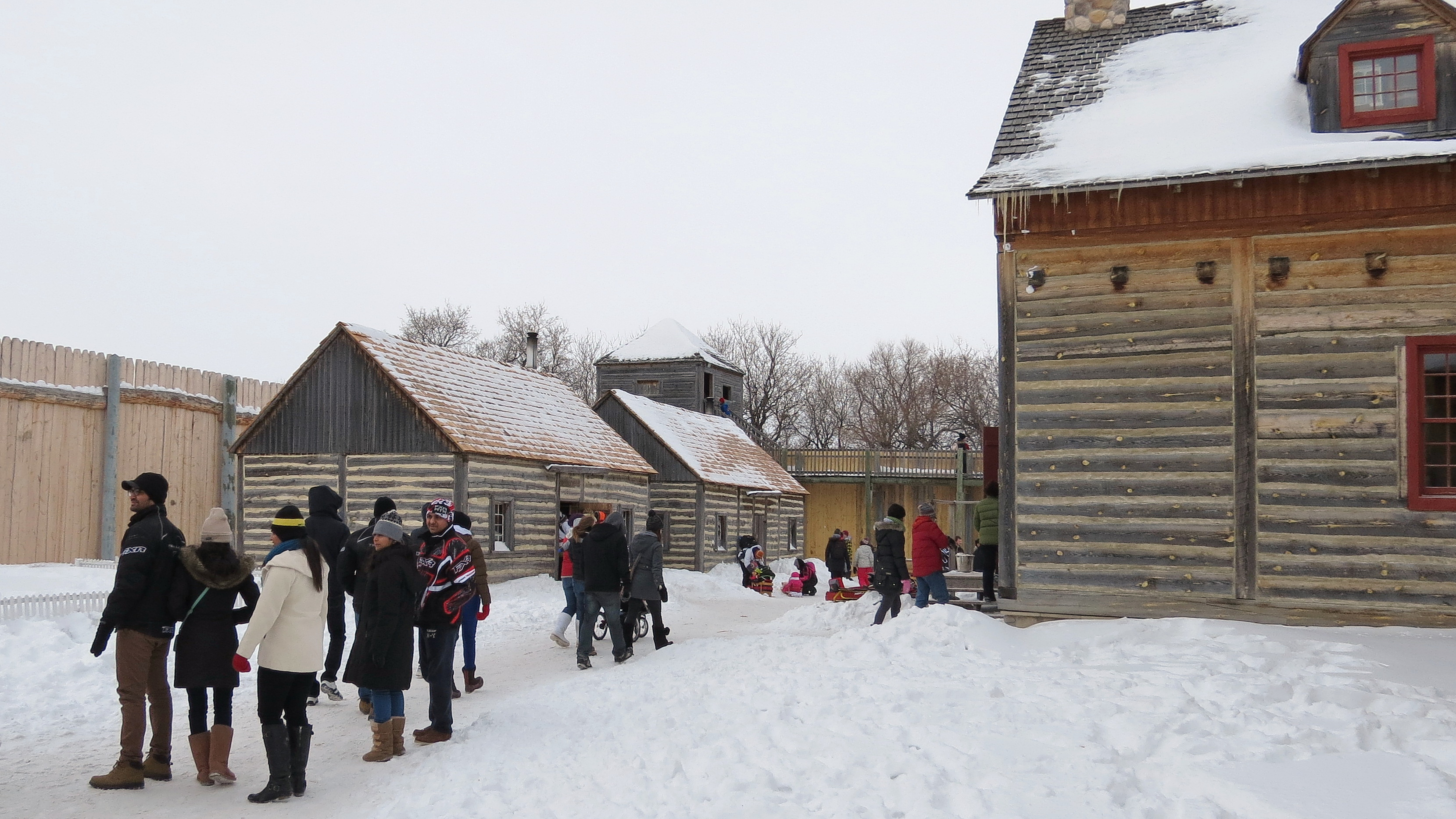 Fort Gibraltar, St. Joseph St, St. Boniface, Winnipeg, Manitoba, Canada